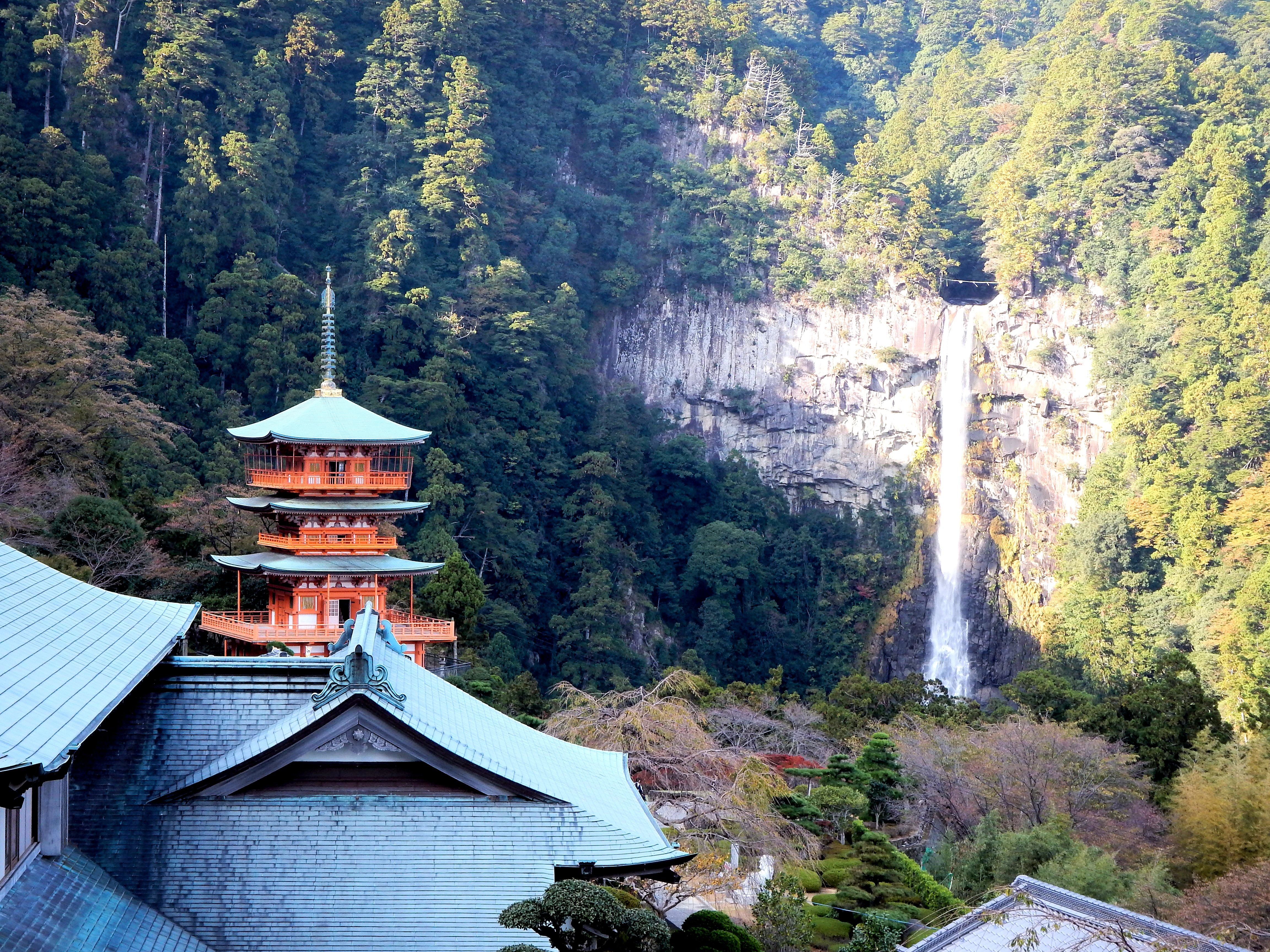 Kumano Kodo pilgrimage route Seiganto-ji World heritage 熊野古道 青岸渡寺